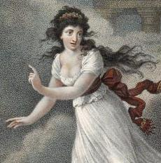 The dancer Maria Vigano as Terpsichore. Stipple engraving, hand-colored, oval, 29 x 24 cm.